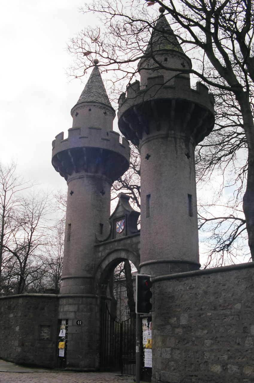 Powis Gates.08700007